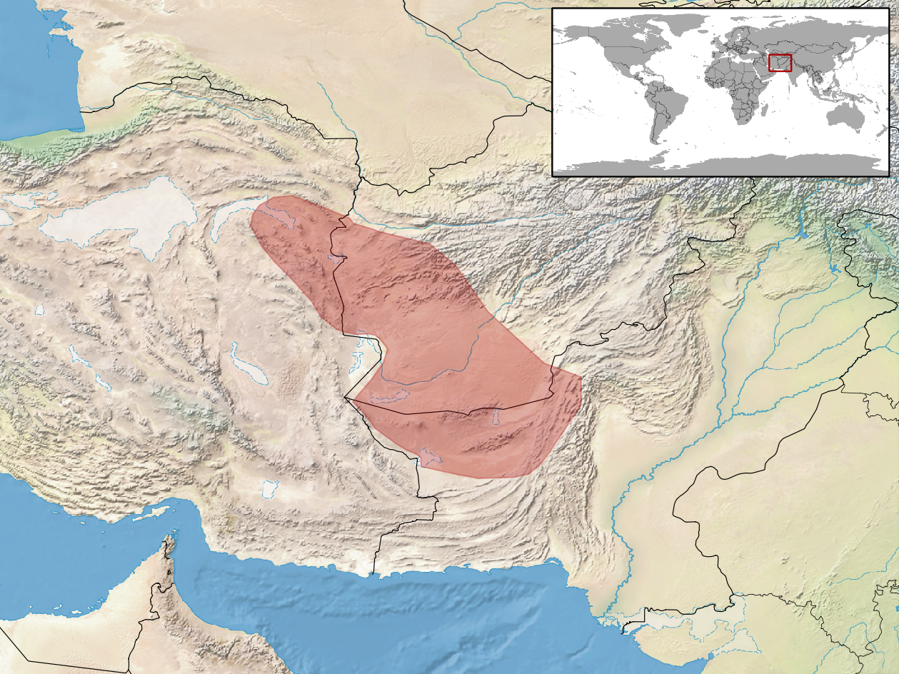 geographic distribution of Phrynocephalus ornatus (Native: Afghanistan; Iran, Islamic Republic of; Pakistan)